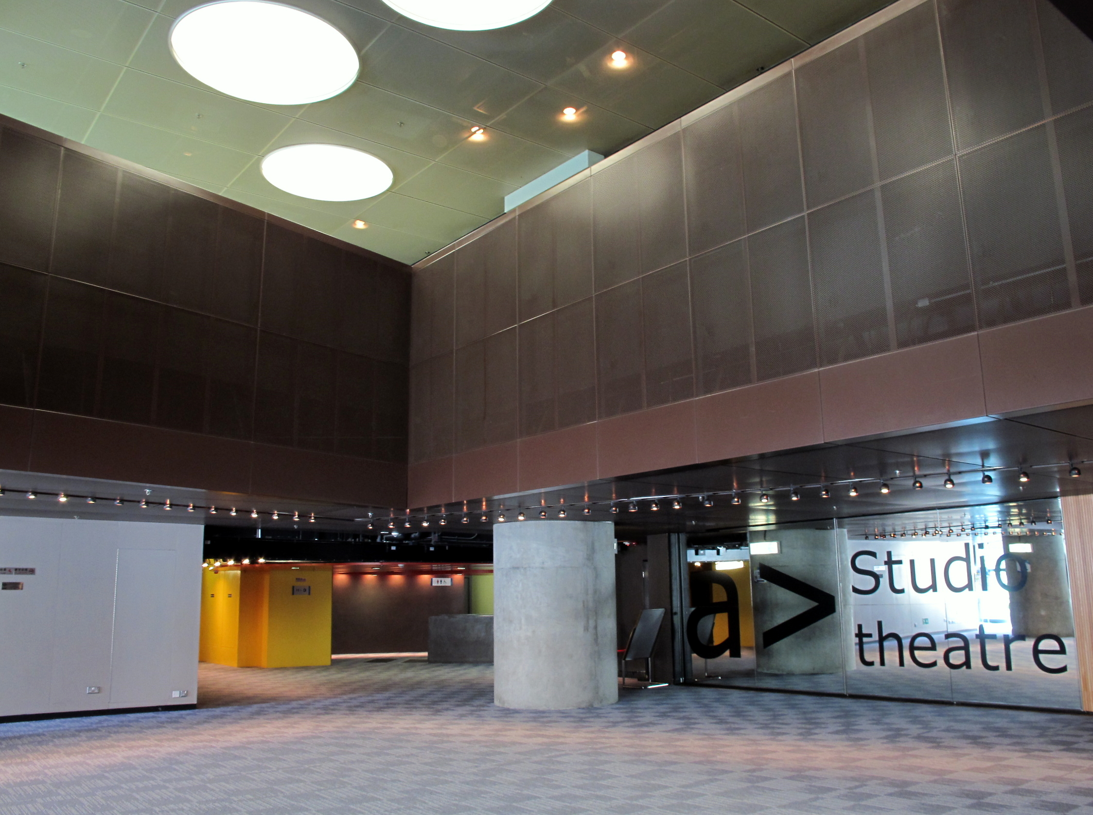 Youth Square Level 1 Studio theatre Enterance 青年廣場